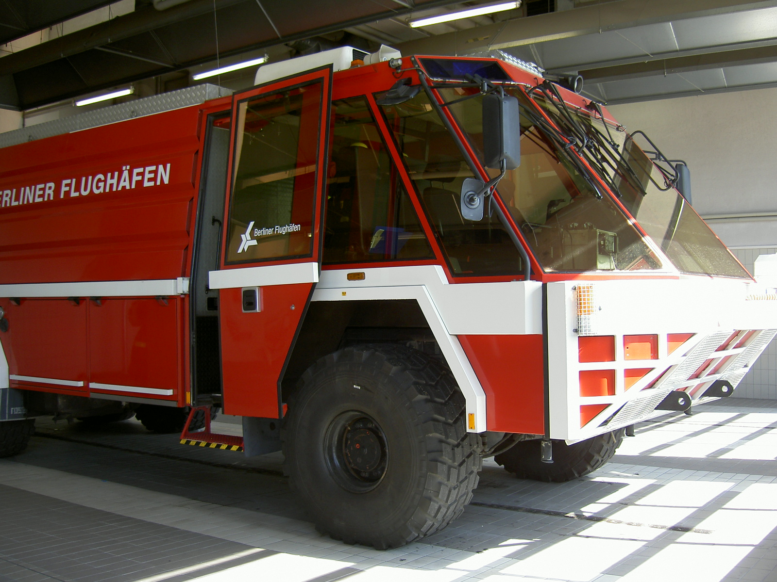 GFLF 6 x 6